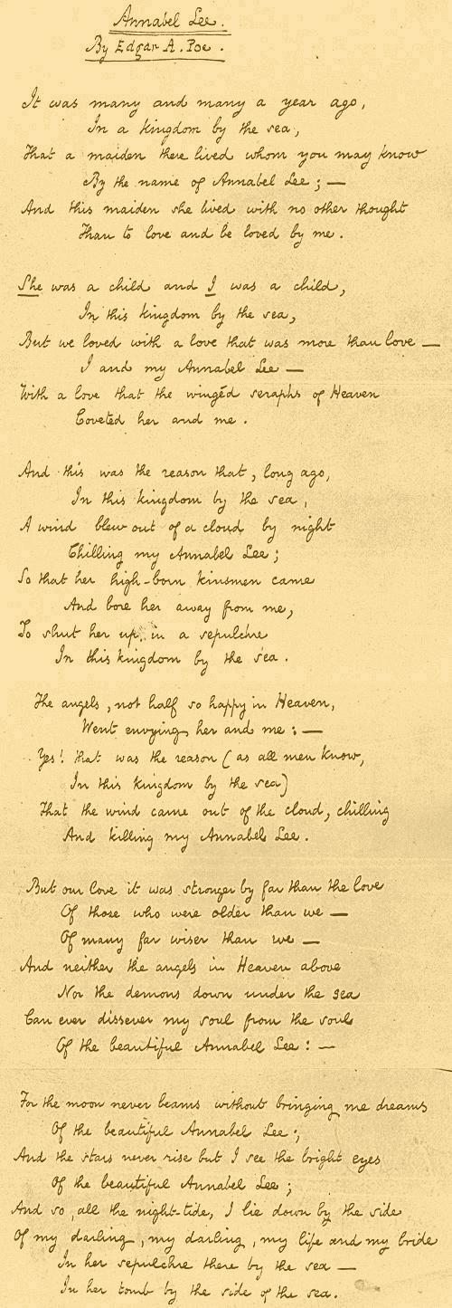 The 1849 fair copy of the poem "Annabel Lee" by Edgar Allan Poe from the Columbia University Rare Book and Manuscript Library, New York. A bequest of Mrs. Alexander McMillen Welch.